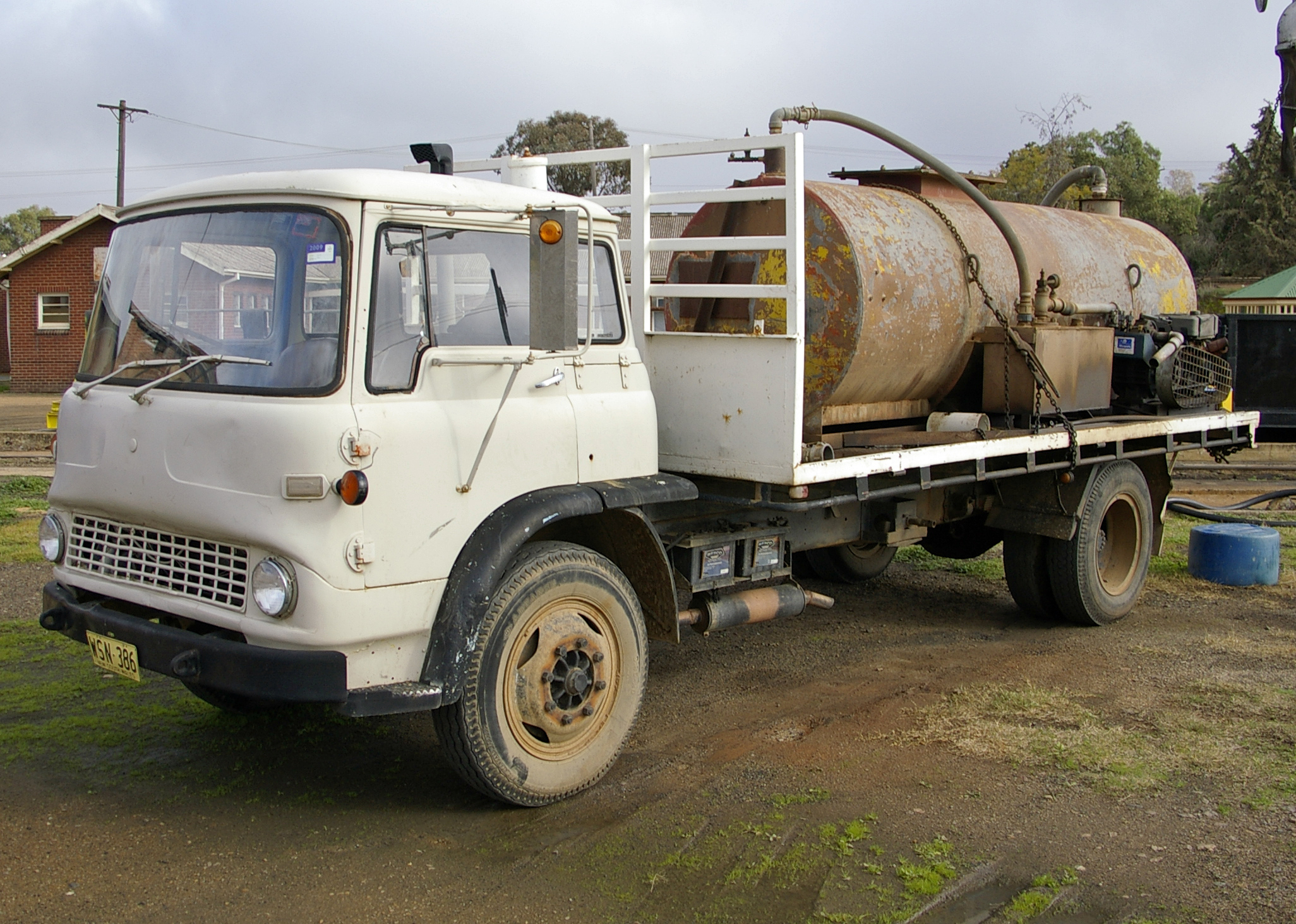 Bedford TK water tanker (carrier) at the Junee Roundhouse